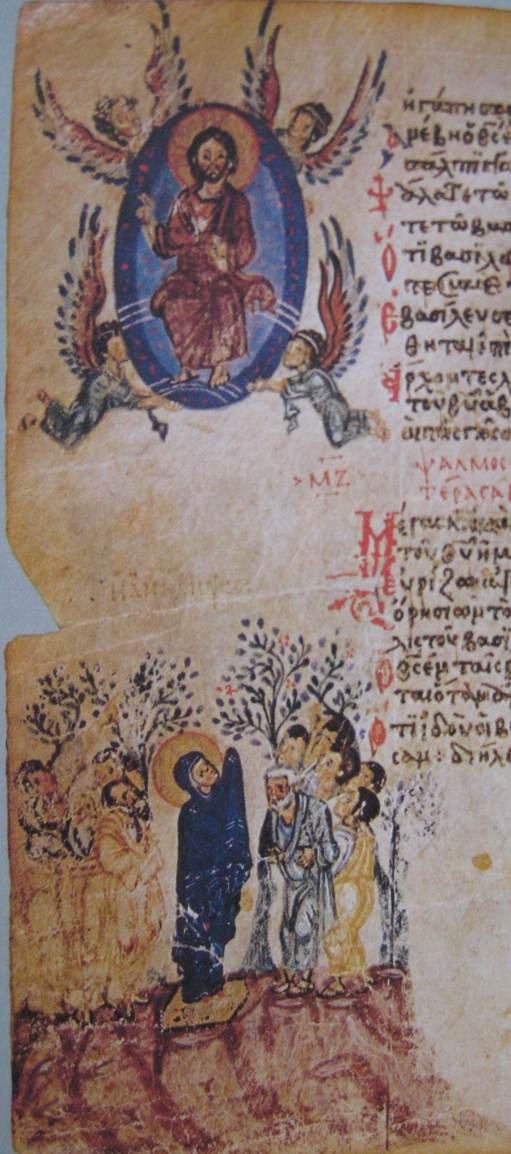 Ascension of Christ from Chludov Psalter